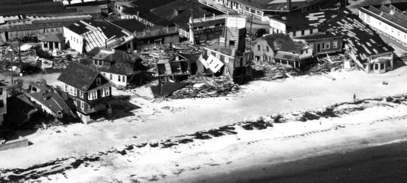 This image depicts the damage taken by Ocean Beach Park in the aftermath of the 1938 New England Hurricane.